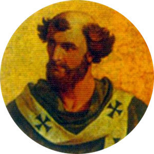 Portait of Pope Romanus in the Basilica of Saint Paul Outside the Walls, Rome